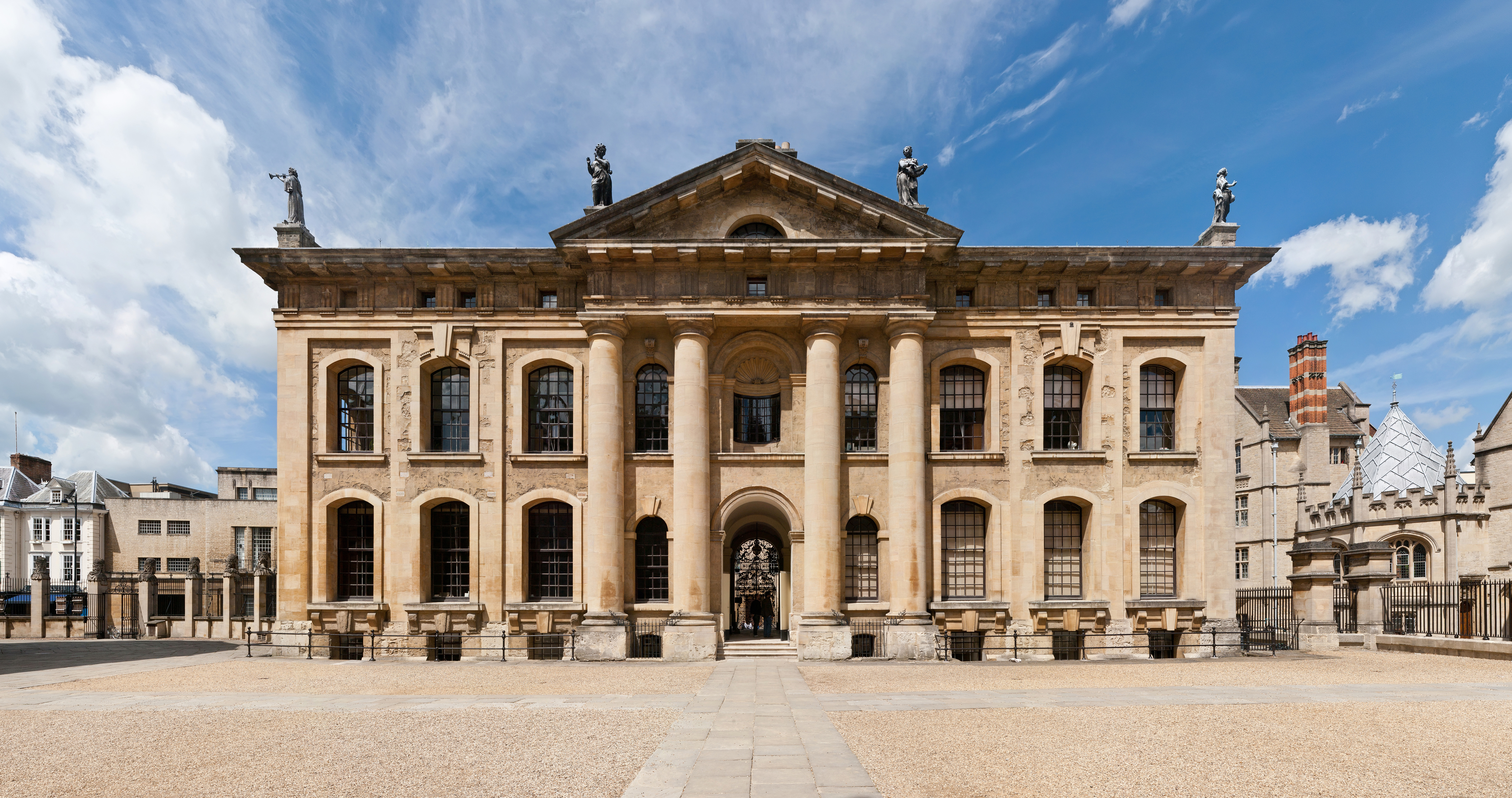 A perspective corrected view of the South face of the Clarendon Building in Oxford, England.